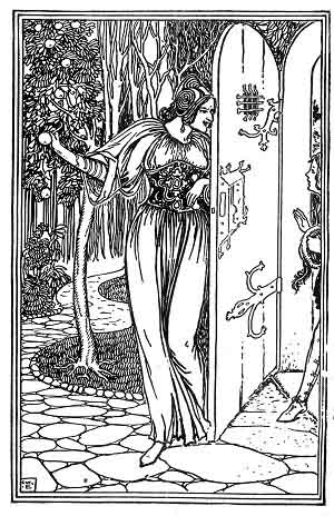 Illustration to Child Ballad #155, which is known by these titles: Sir Hugh, Hugh of Lincoln, Little Harry Hughes and the Duke's Daughter, The Jew's Garden, Walter Birch, The Fatal Flower Garden, It Rained a Mist, Little Saloo, The Jew's Daughter.